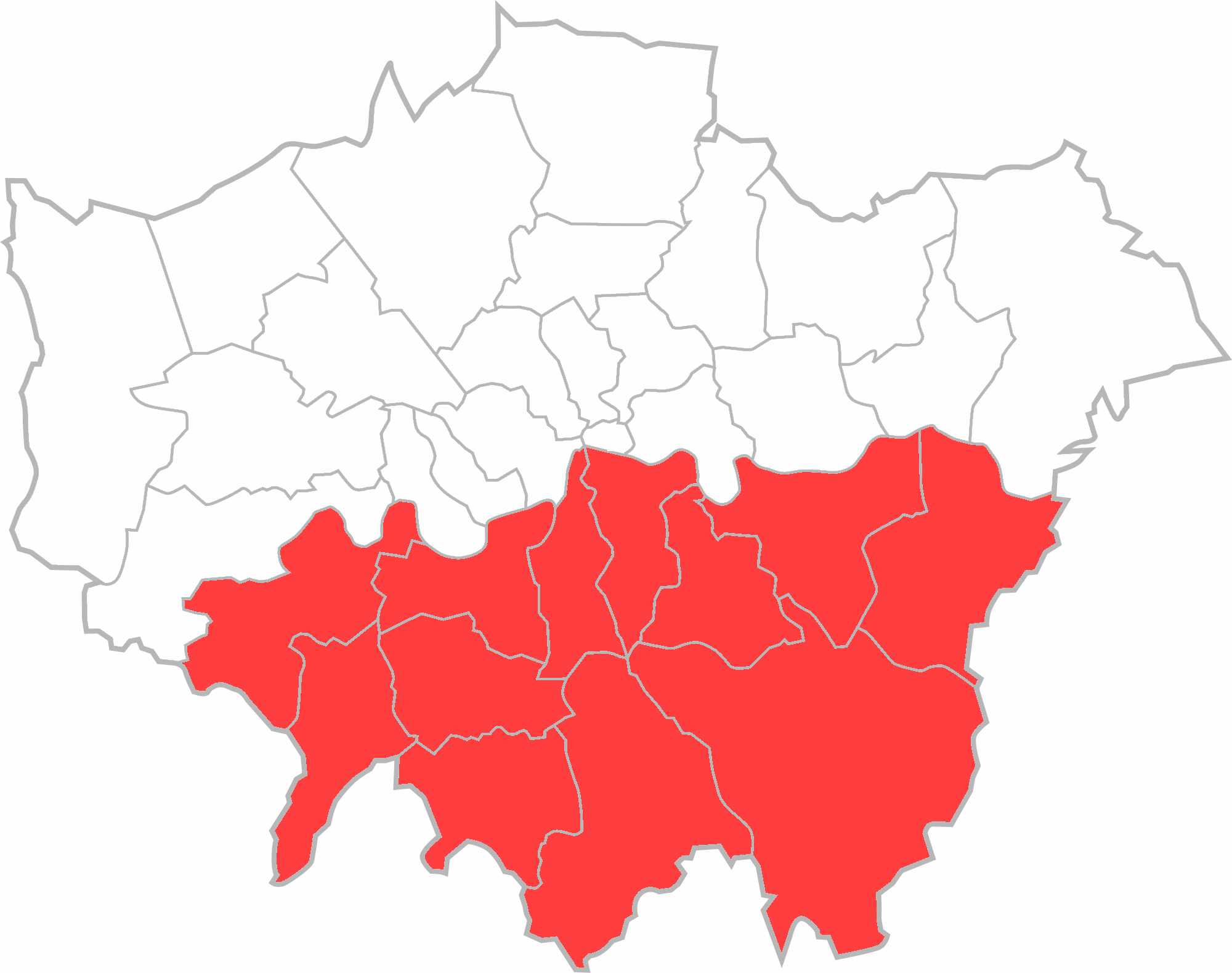 Map of South London. Boundary commission definition.